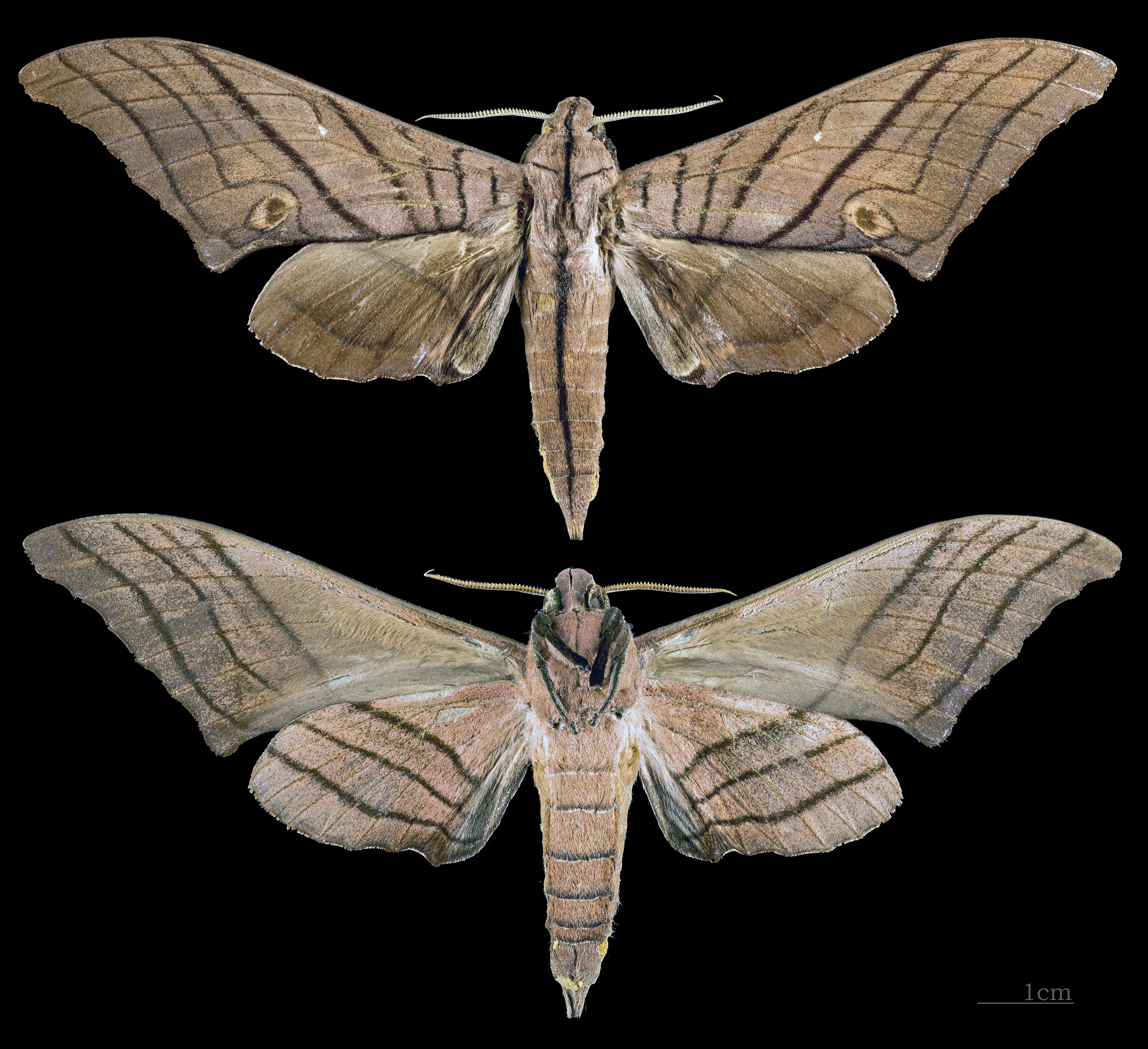 Marumba cristata titan - Two views of same specimen Collection of the Mathematician Laurent Schwartz